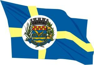 Flag of Gavião Peixoto - SP - Brasil.